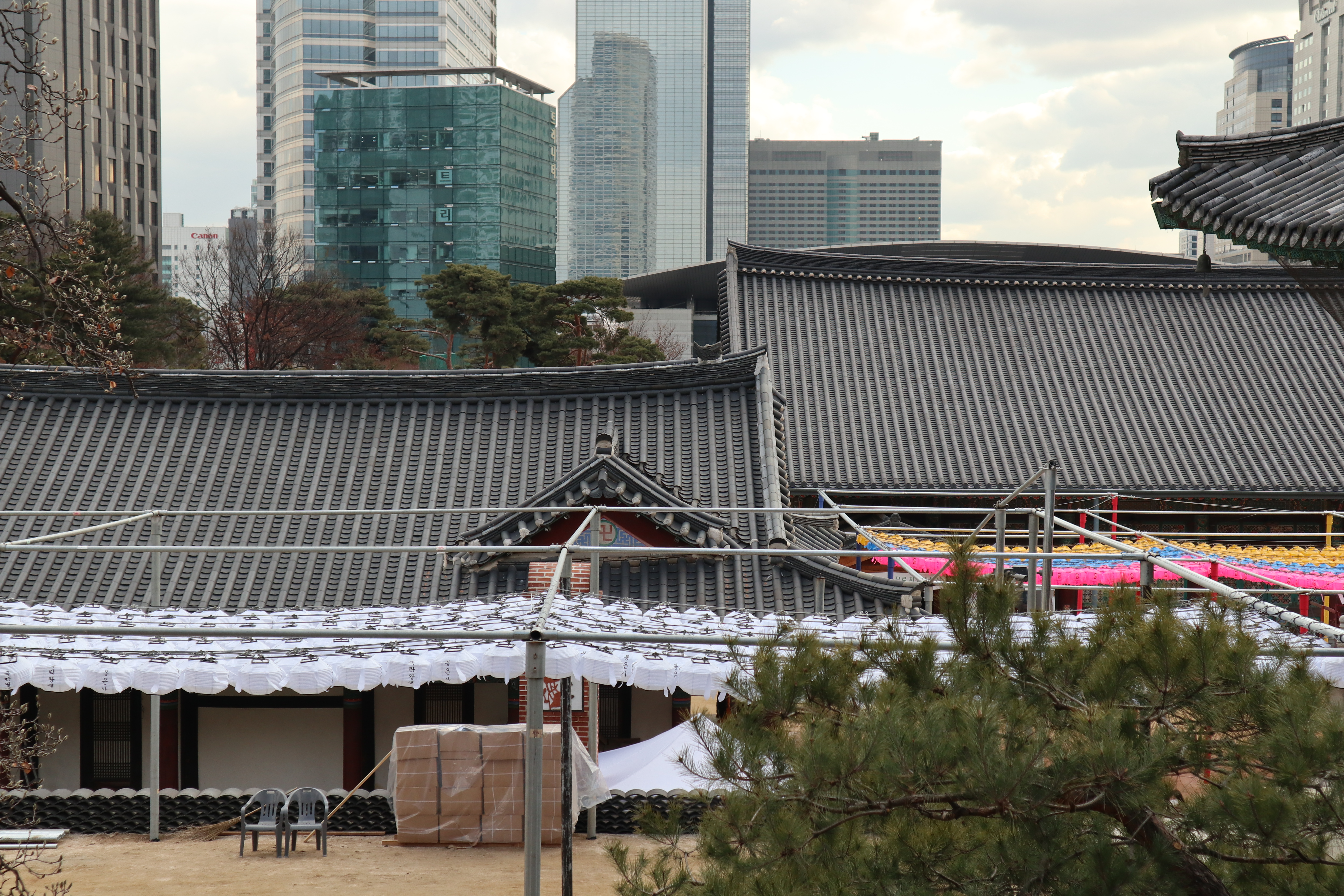 Korean Buddhist architecture at Bongeunsa